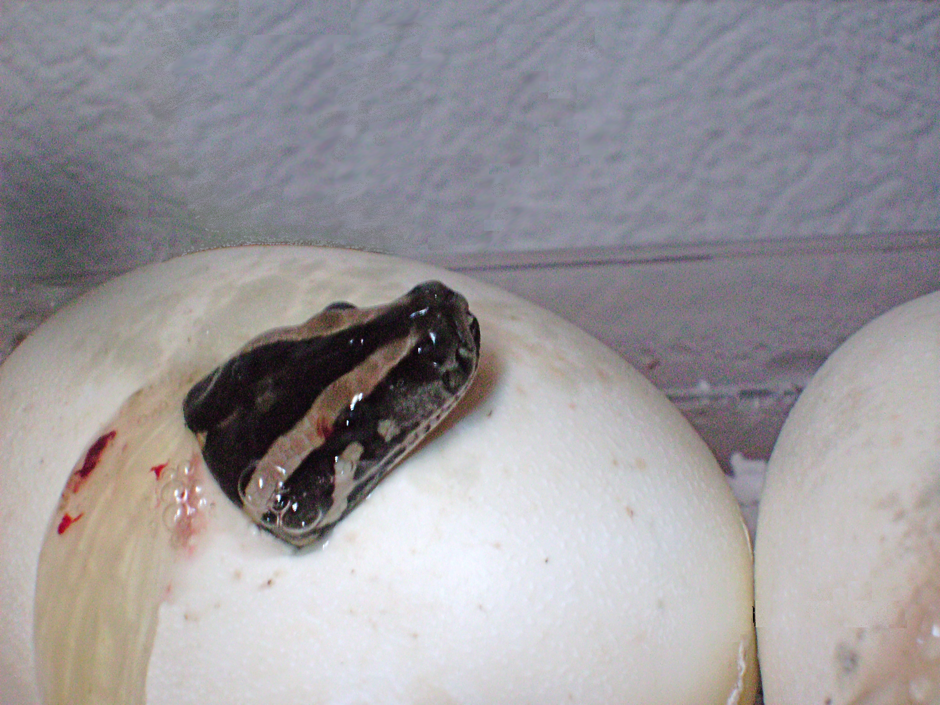 Python molurus bivittatus hatchling Picture donated by